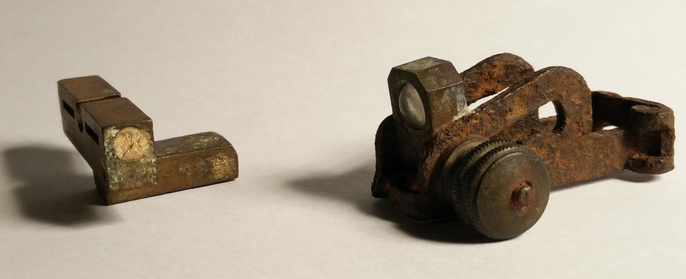 Rear and front night (luminous) sights Model 1916 for the Mannlicher M1895 rifle.